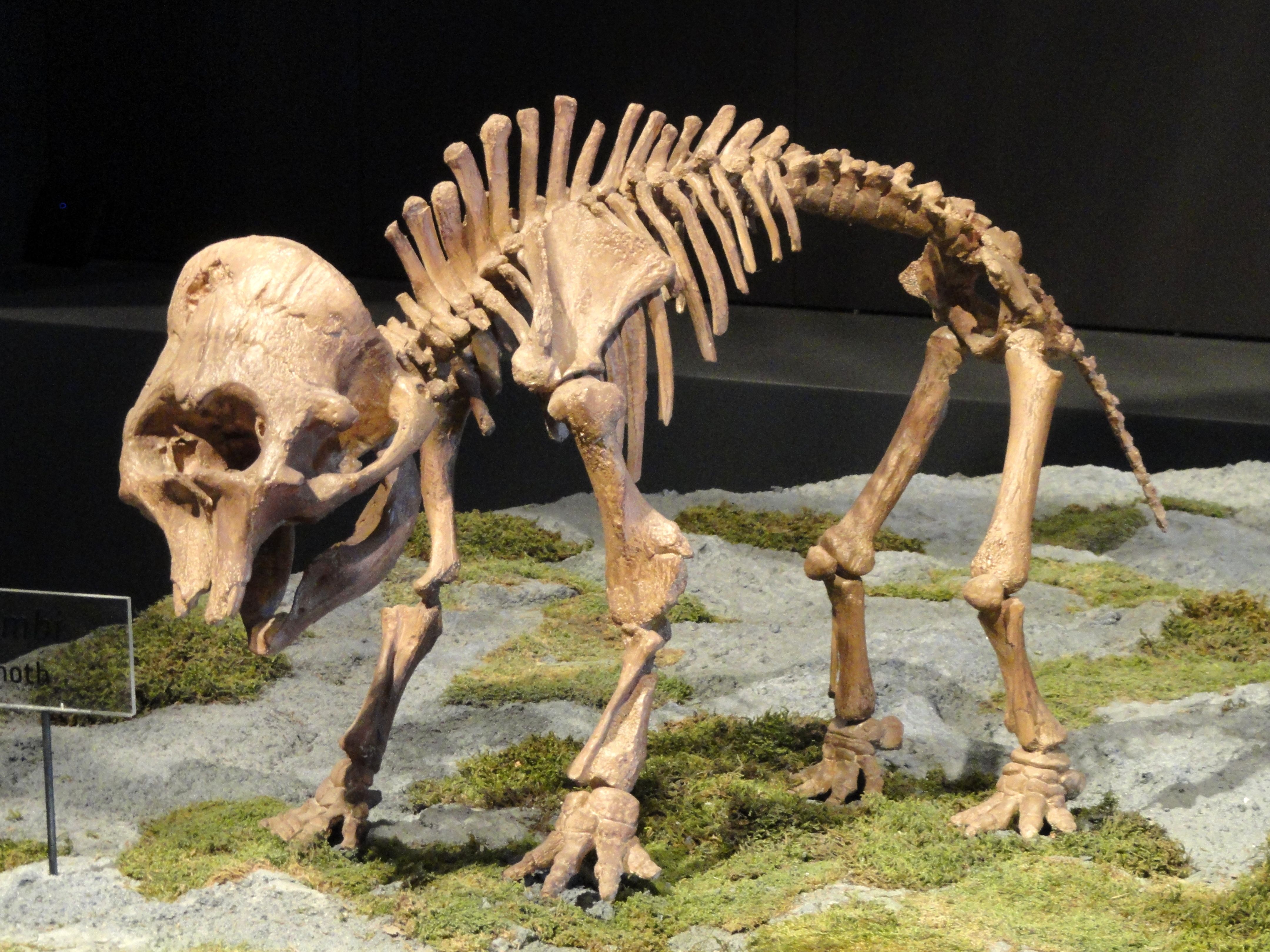 Fossil specimen in the Natural History Museum of Utah, Salt Lake City, Utah, USA.